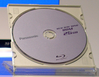 Blu-ray Disc (Panasonic). Single layer discs with 25GB capacity and without cartridge. Taken on the consumer electronics fair IFA2005 in Berlin.